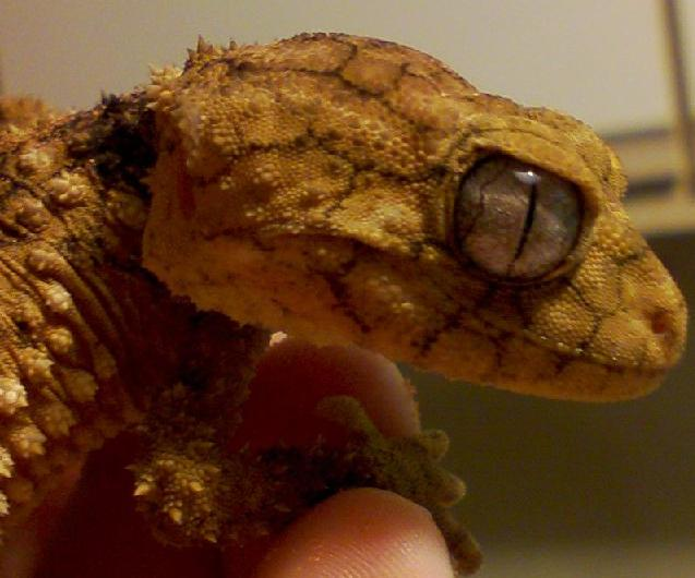 Nephrurus amyae (female), a gecko.